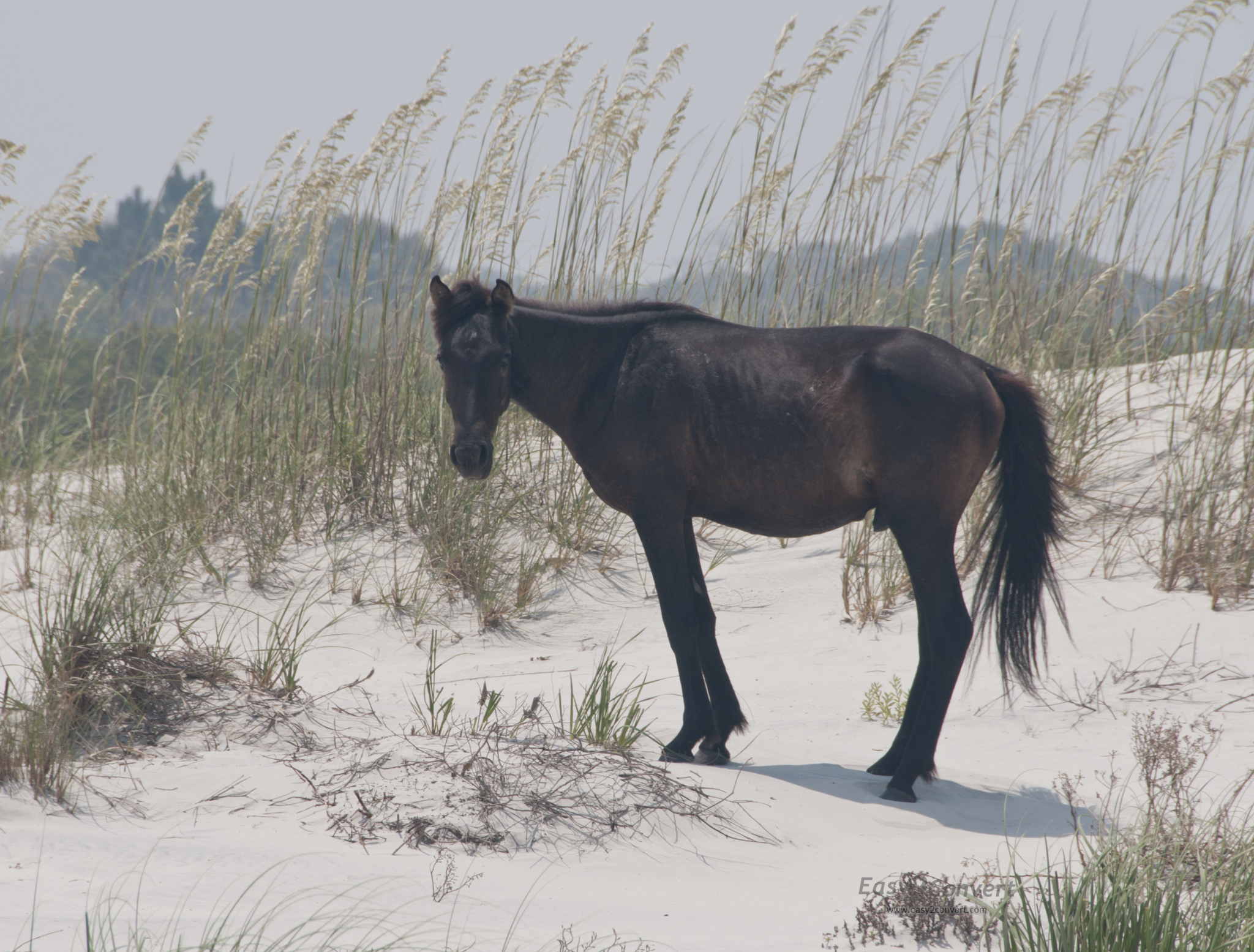 An adolescent black stallion nibbles sea oats on the dunes at Cumberland Island Naitonal Seashore, Georgia.